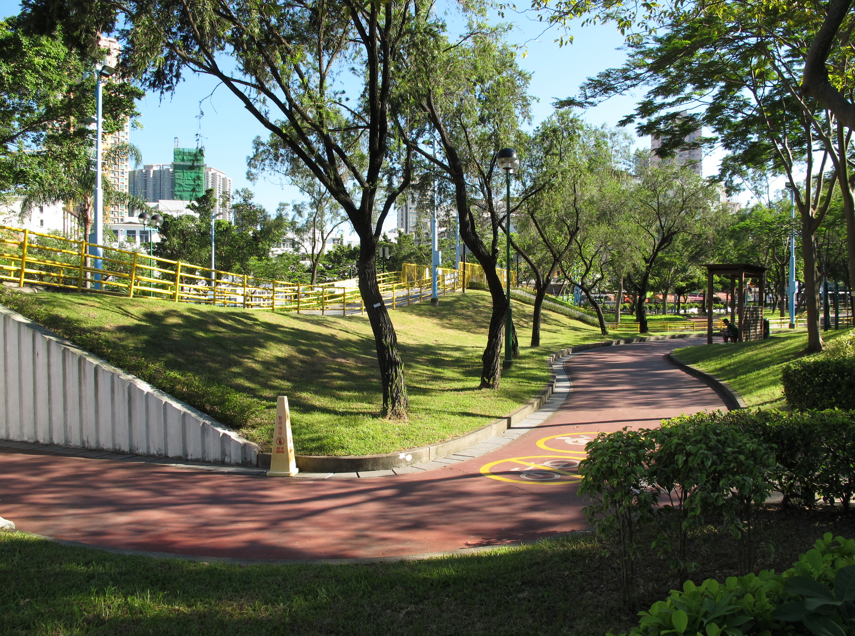 Carpenter Road Park 賈炳達道公園